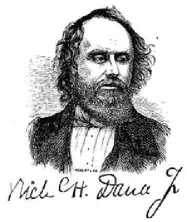 old artwork depicting Richard Henry Dana jr.